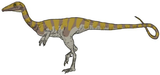 Depiction of the Triassic coelophysid Camposaurus, based on Coelophysis and Megapnosaurus. Other information Reconstruction is based on the holotype, with additional elements reconstructed around Coelophysis and Megapnosaurus, its closest relatives as of the most recent phylogenetic analysis.